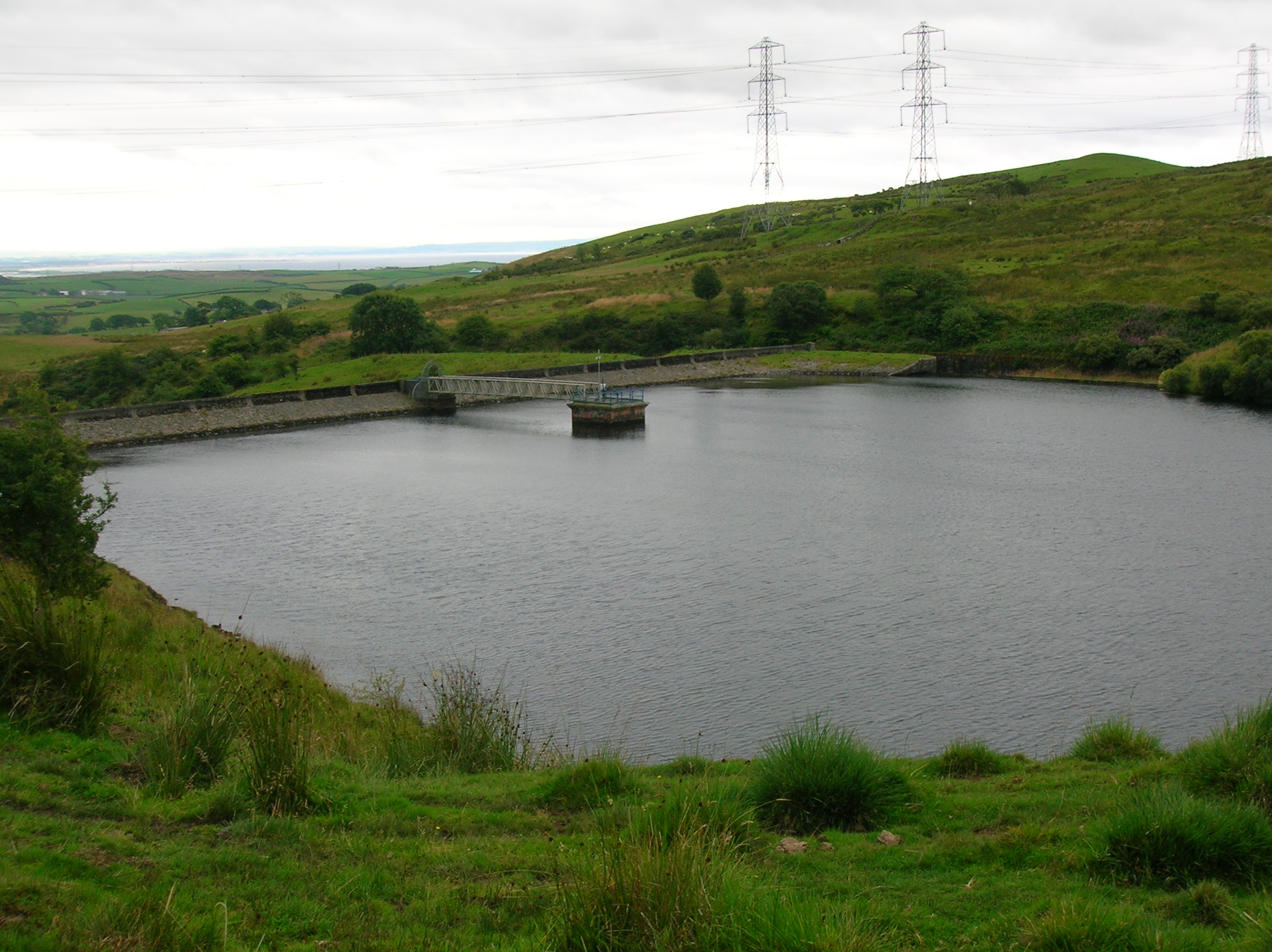 The Caaf Water resevoir near Dalry in North Ayrshire, Scotland